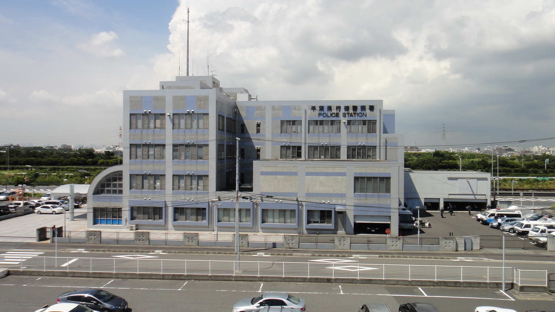 Gyotoku Police Station viewed from the platform of Ichikawa-Shiohama Station on the Keiyo Line